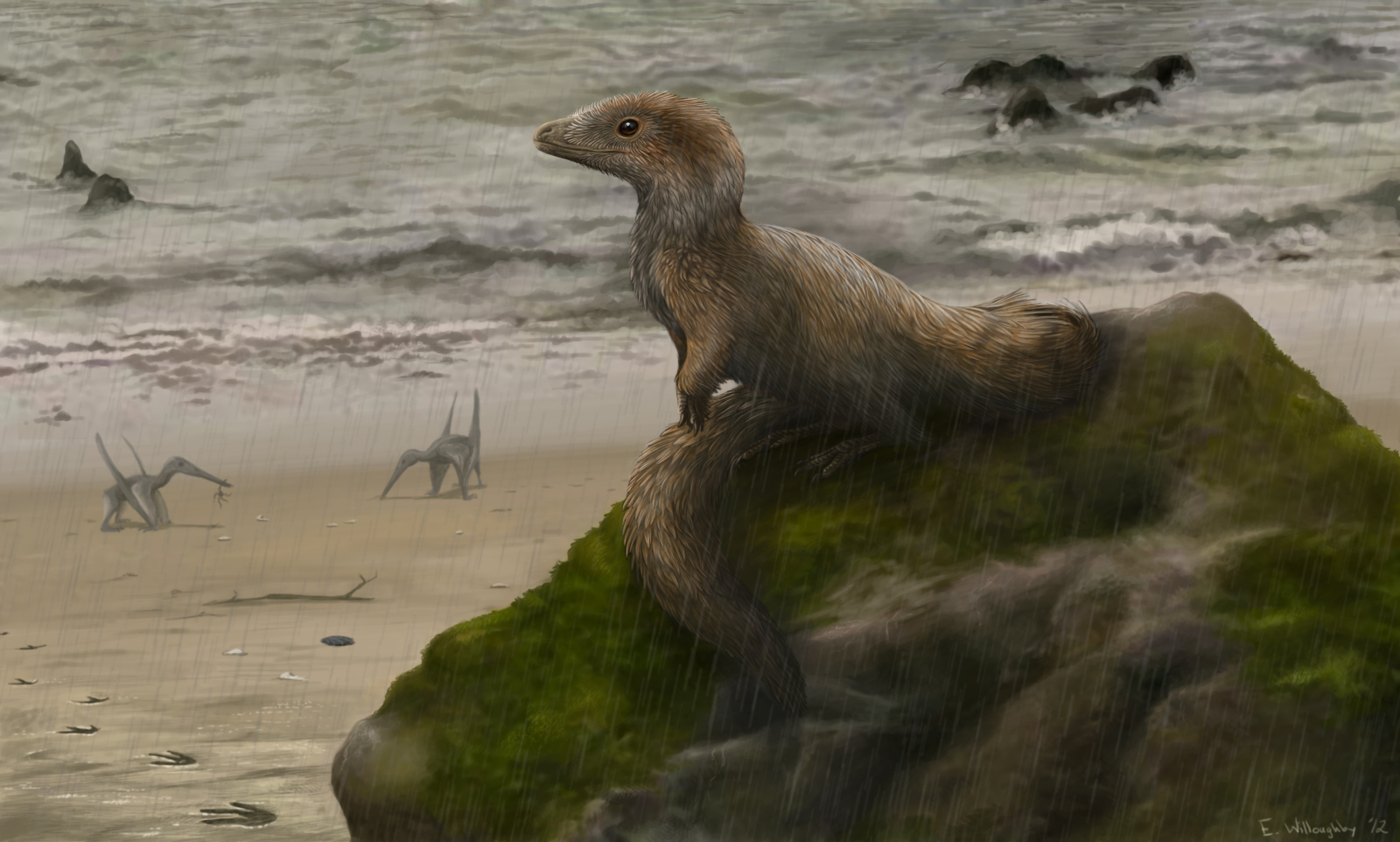 The "squirrel mimic" Sciurumimus, a juvenile coelurosaurian theropod dinosaur from the Late Jurassic of lower Bavaria, Germany.